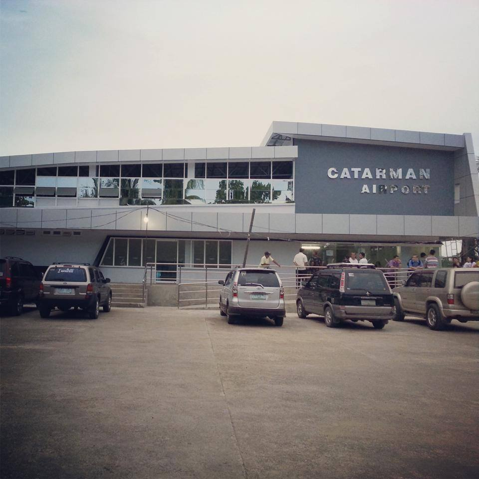 New Catarman Airport terminal building